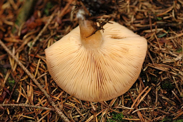 Lactarius spec. from Commanster, Belgium. The determination of the species shown in this picture has been verified.